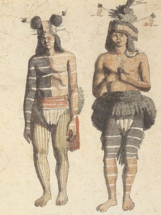 This file was derived from: Ohlone war dance.jpg